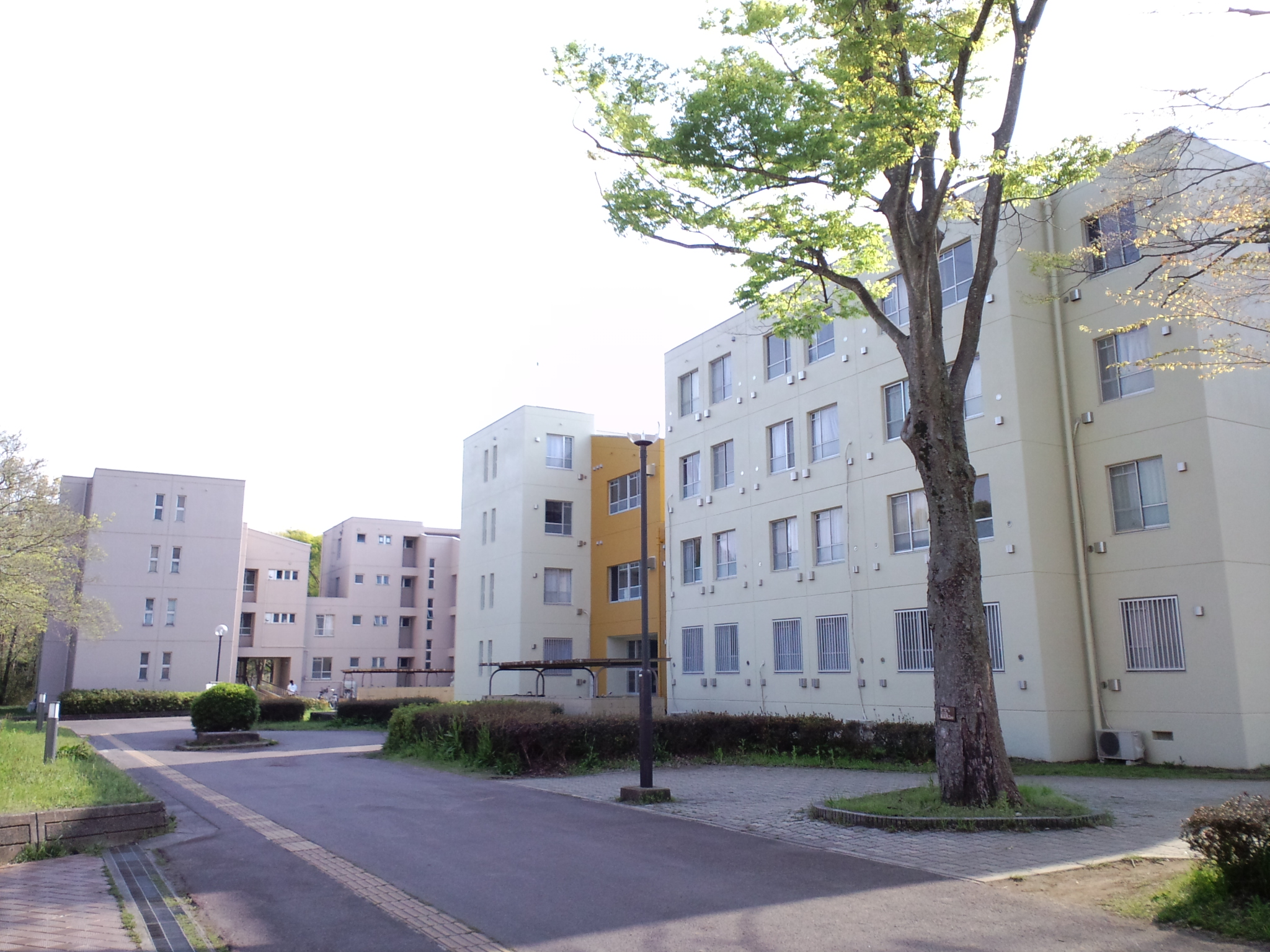 Ichinoya Residence Building 1 and 3 in University of Tsukuba, Tennōdai 2-chōme, Tsukuba city, Ibaraki prefecture, Japan.